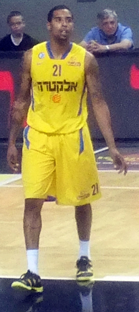 Landisberg wearing the Maccabi Tel-Aviv team's outfit at a match of the 2012/13 Season.